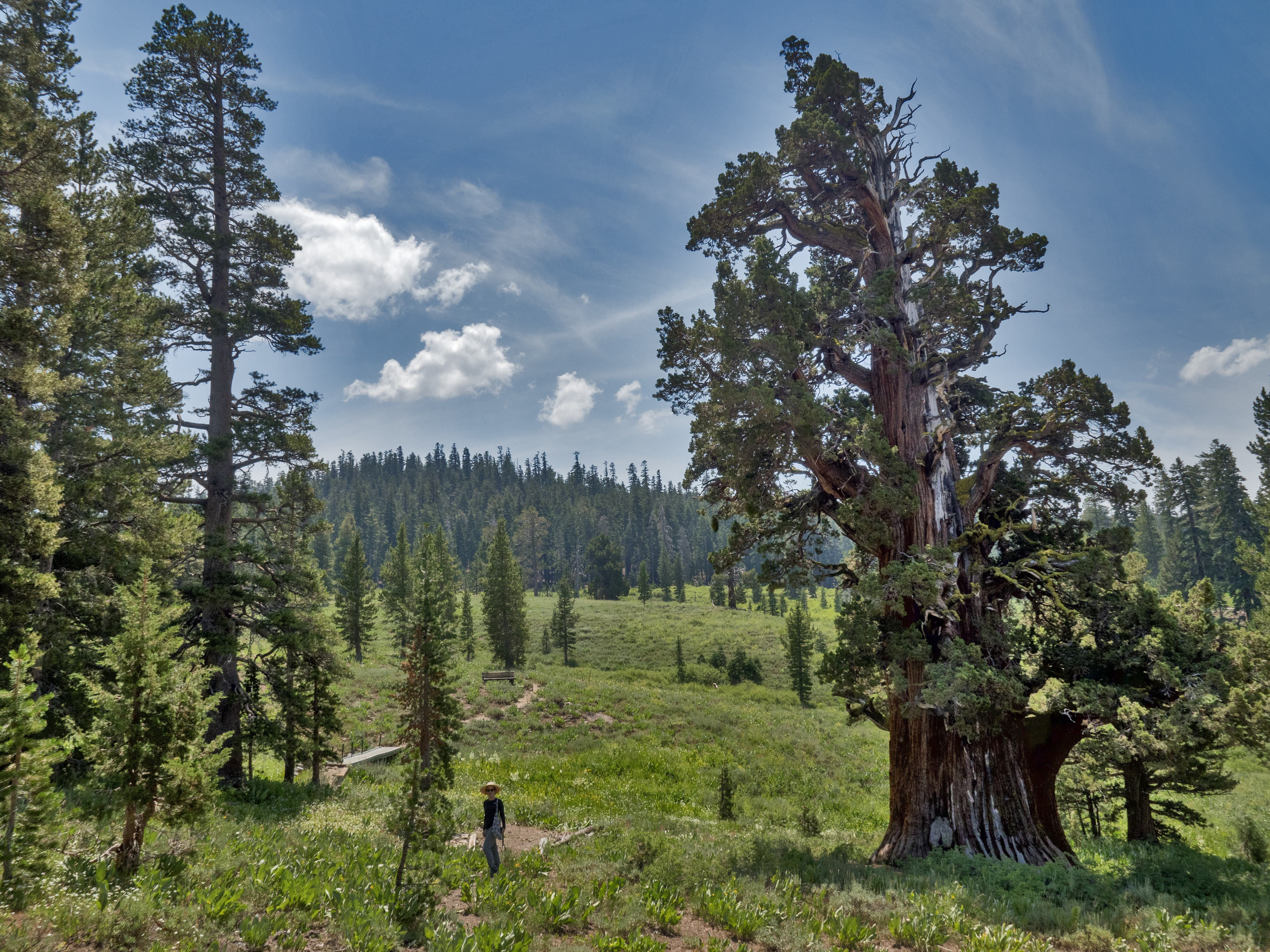 The Bennett Juniper tree in Stanislaus National Forest in Tuolumne County, California, largest juniper tree in North America. It is located in a preserve and one is not allowed at the base of the tree. This shows the north side of the tree with a person for scale, who is on the short trail established by the Preserve.